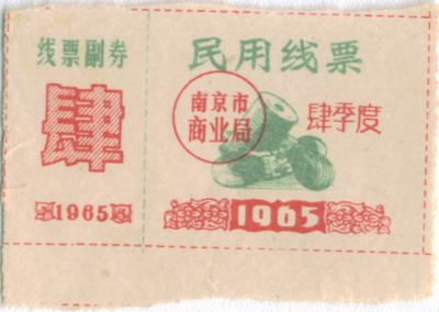 Chinese thread coupon in 1965 in Nanjing. scanned by farm